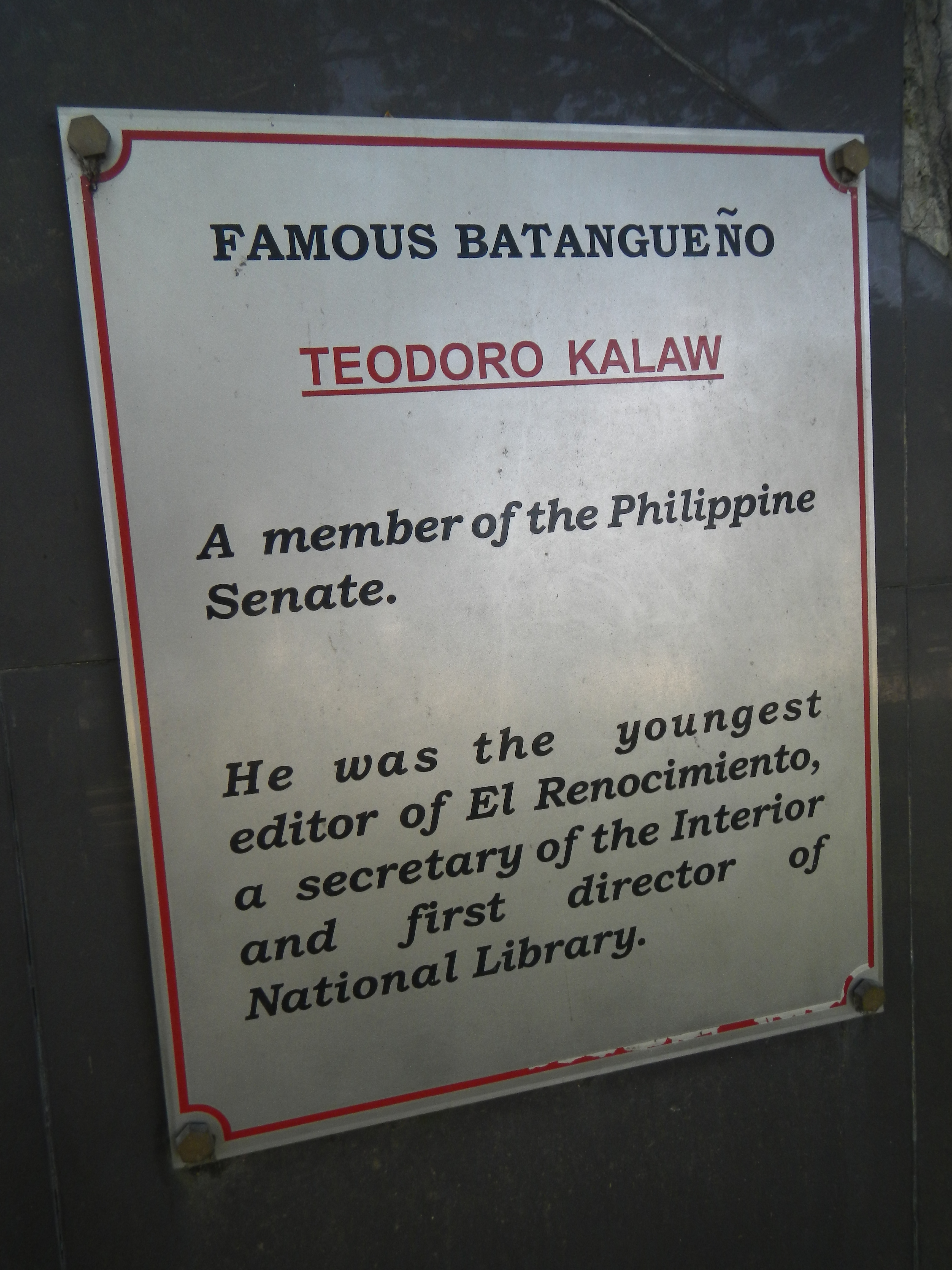 Upload Wizard photos -- (general description of landmarkds, town, church) -Historical Park and Laurel Park - (man-made parks at the Provincial Capitol Complex in Barangay Kumintang Ibaba - with a Multi-Purpose Center used as basketball court, volleyball court and dormitory, for a seminar and meeting venues; the sculpture work entitled "Diwa ng Batangeuno" done in bronze/steel by Ed Castrillo portrays the vitues of the Batanguenos such as nobility, industriousness, beauty and wisdom[1]) - Monuments, Busts of - Maria Orosa[2] Maria Orosa e Ylagan; Claro M. Recto[3]; Dr. Baldomero Roxas [4]; Feliciano Leviste[5]; Dr. Deogracias V. Villadolid - Profiles of Filipino Fisheries Scientists - University of the Philippines Los Baños Limnological Research Station[6]; Jose Diokno[7] - at the - Batangas [8] Provincial Capitol [9] Coordinates: 13°45'55"N 121°3'50"E Batangas City (the largest and capital city of the Province of Batangas, the "Industrial Port City of Calabarzon", 2010 census, the city has a population of 305,607 people).